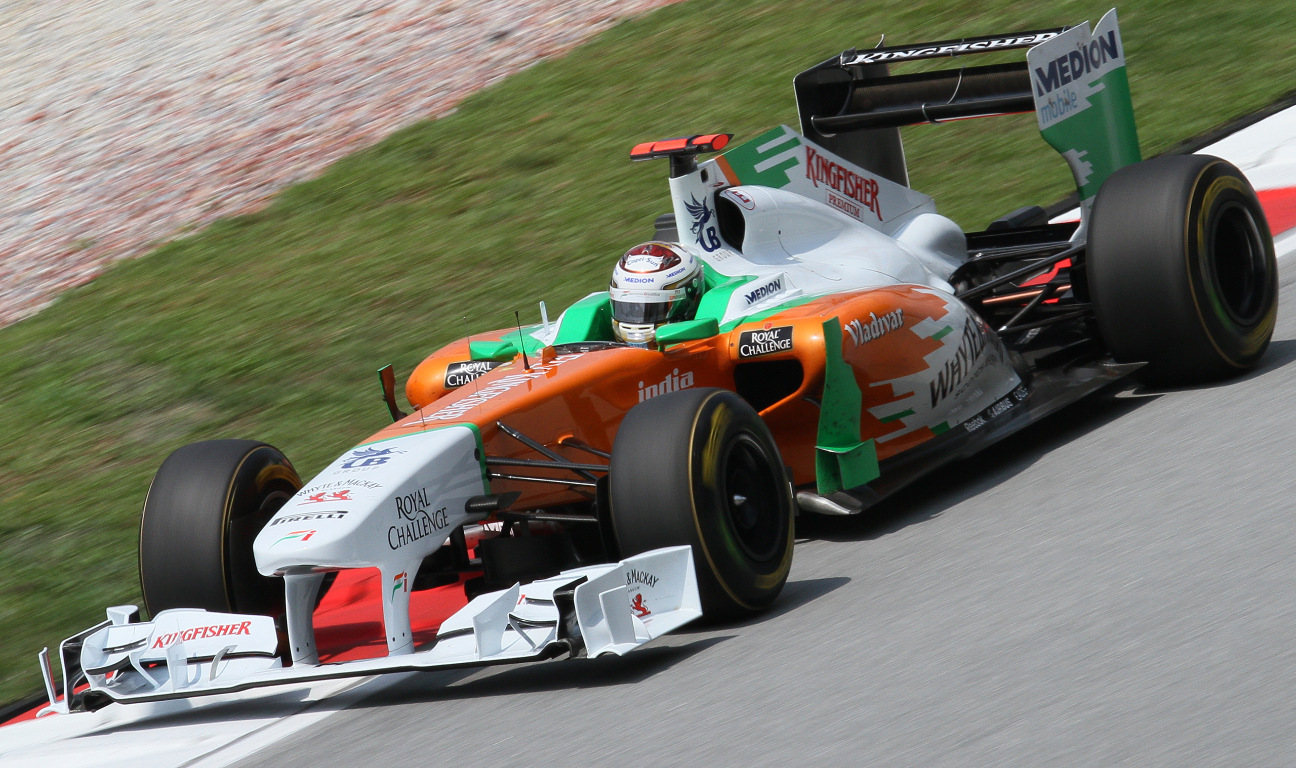 Formula One 2011 Rd.2 Malaysian GP: Adrian Sutil (Force India) during the second practice session on Friday.